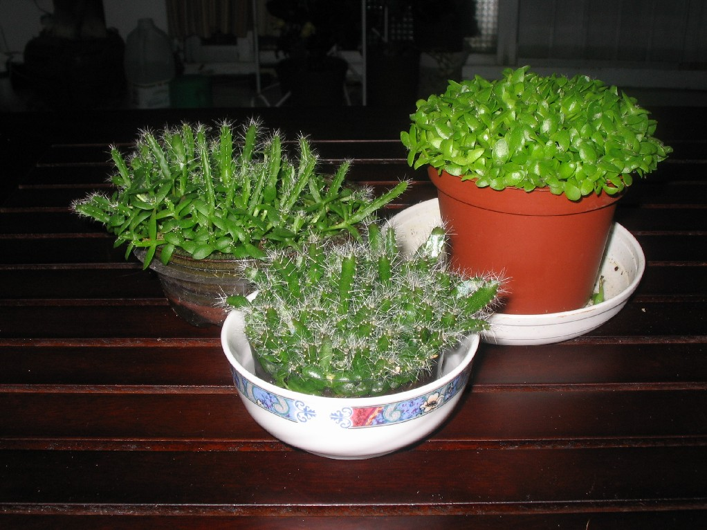 Examples of the pitaya bonsai. Picture taken March 26, 2006 by Allen Timothy Chang. Two of the plants were bought from a flower market in Taipei. The upper left plant was actually planted by yours truly.